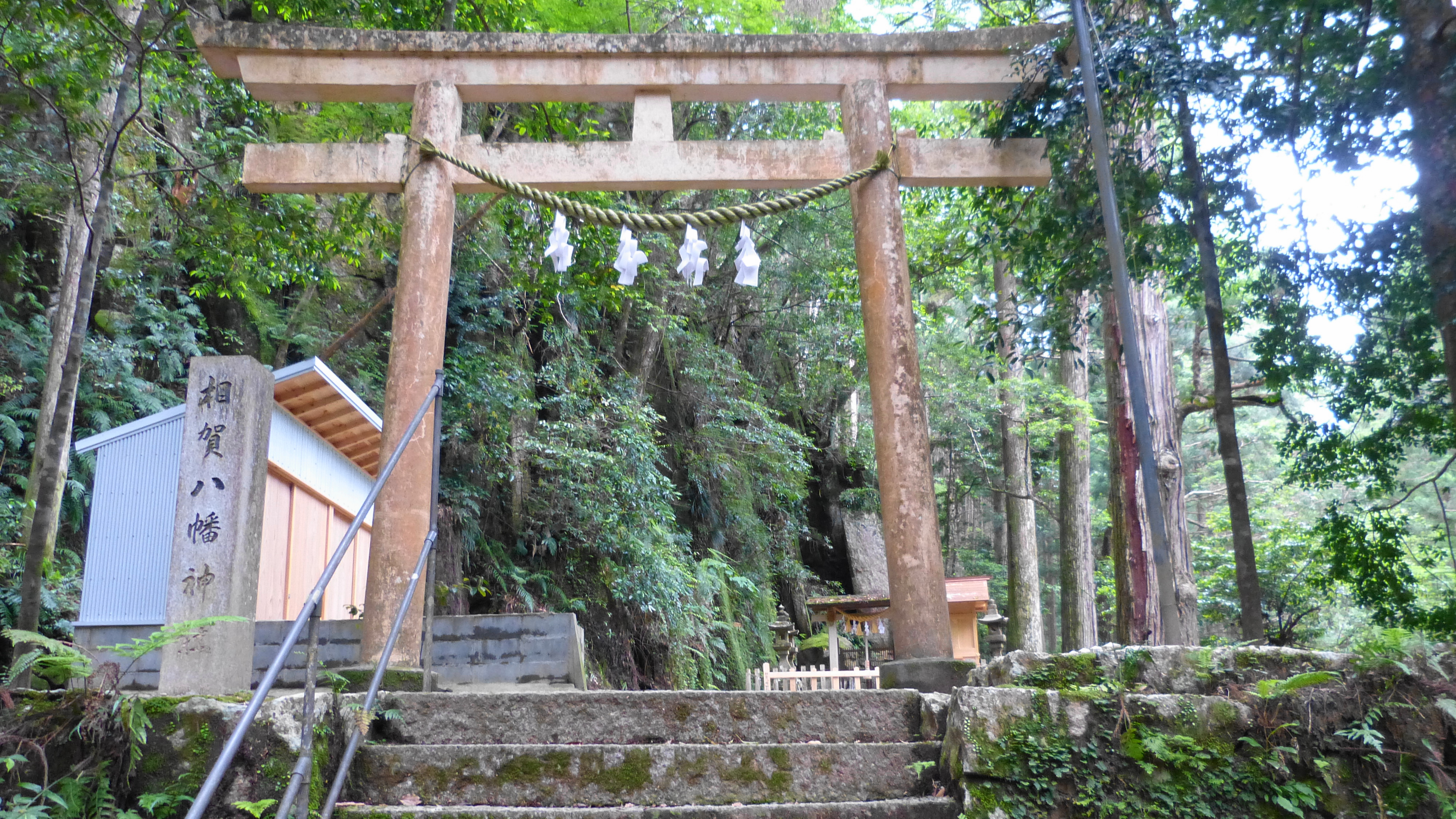 Ouga Hachiman Shrine,Wakayama prefecture, Japan